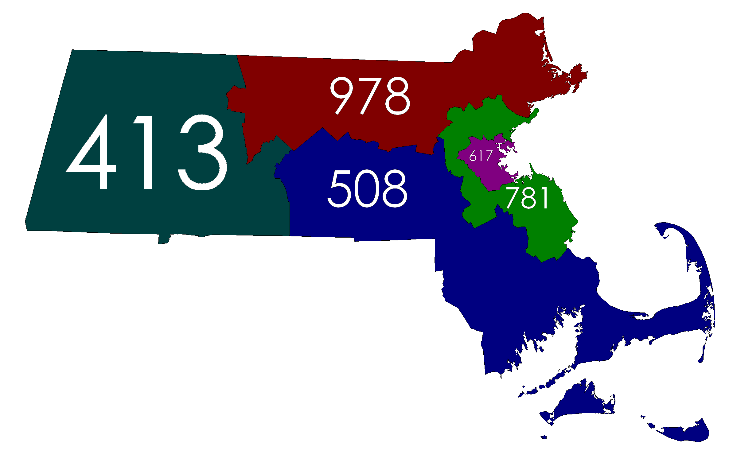 Made myself for Wikipedia